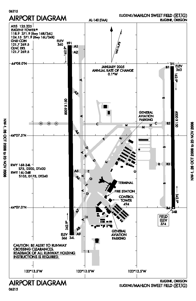 FAA airport diagram for EUG (Mahlon Sweet Field) in Oregon, United States.